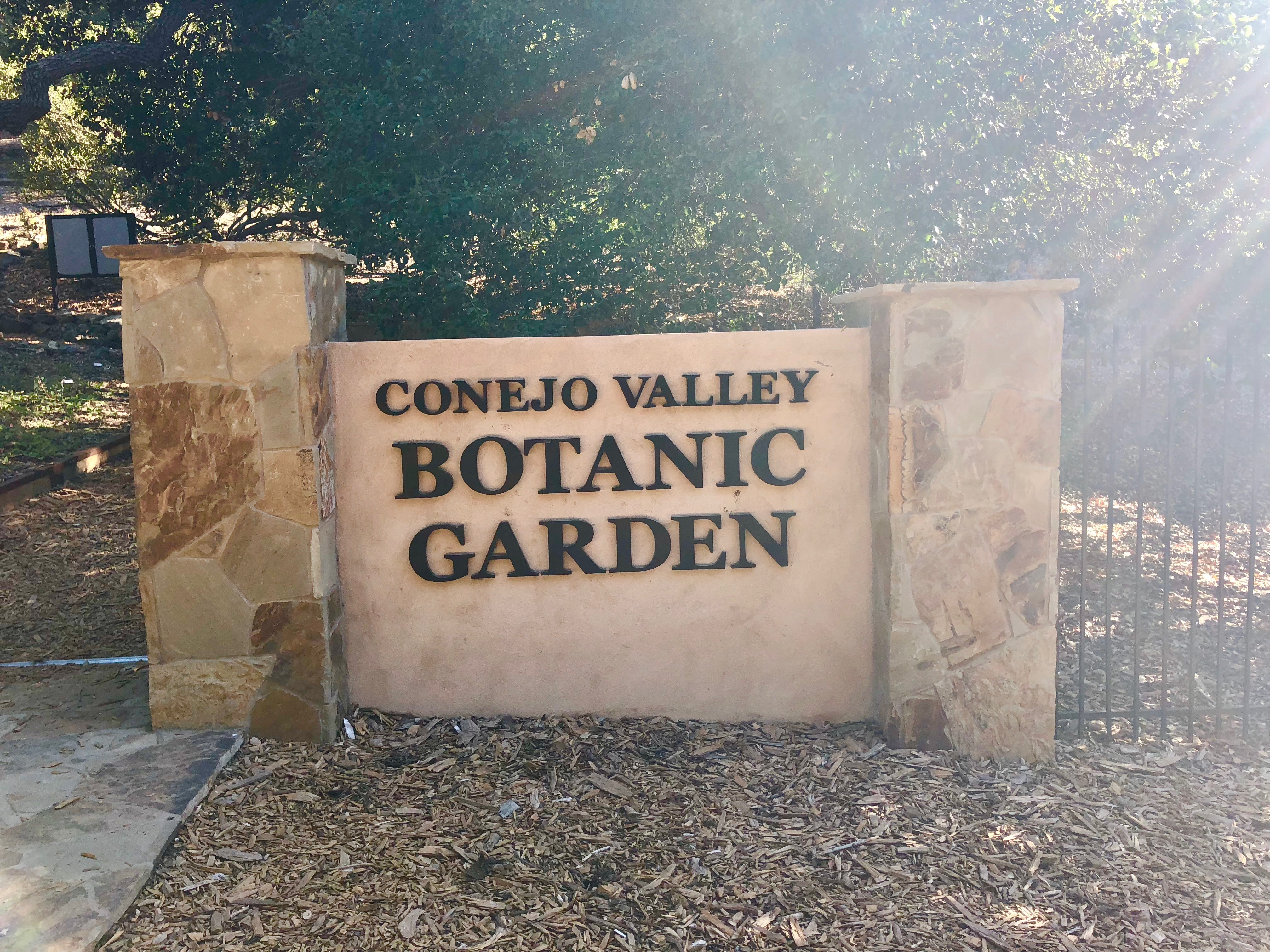 Entry sign by Conejo Valley Botanic Garden in Thousand Oaks, CA.